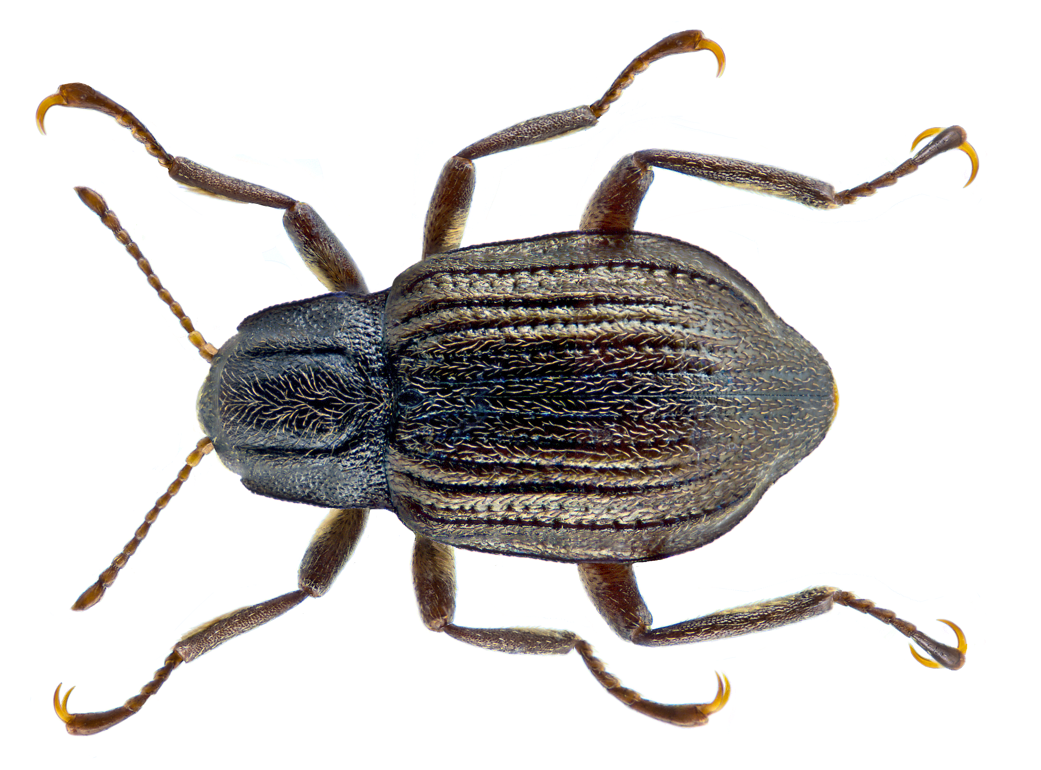 Family: Elmidae Size: 2,1 mm (1,9 to 2,2 mm) Distribution: Europe Ecology: lives in mountain streams on stones and in moss Location: Germany, Bavaria, Upper Franconia, Pottenstein, Puettlach river leg.det. U.Schmidt, 21.VII.1975 Photo: U.Schmidt, 2015